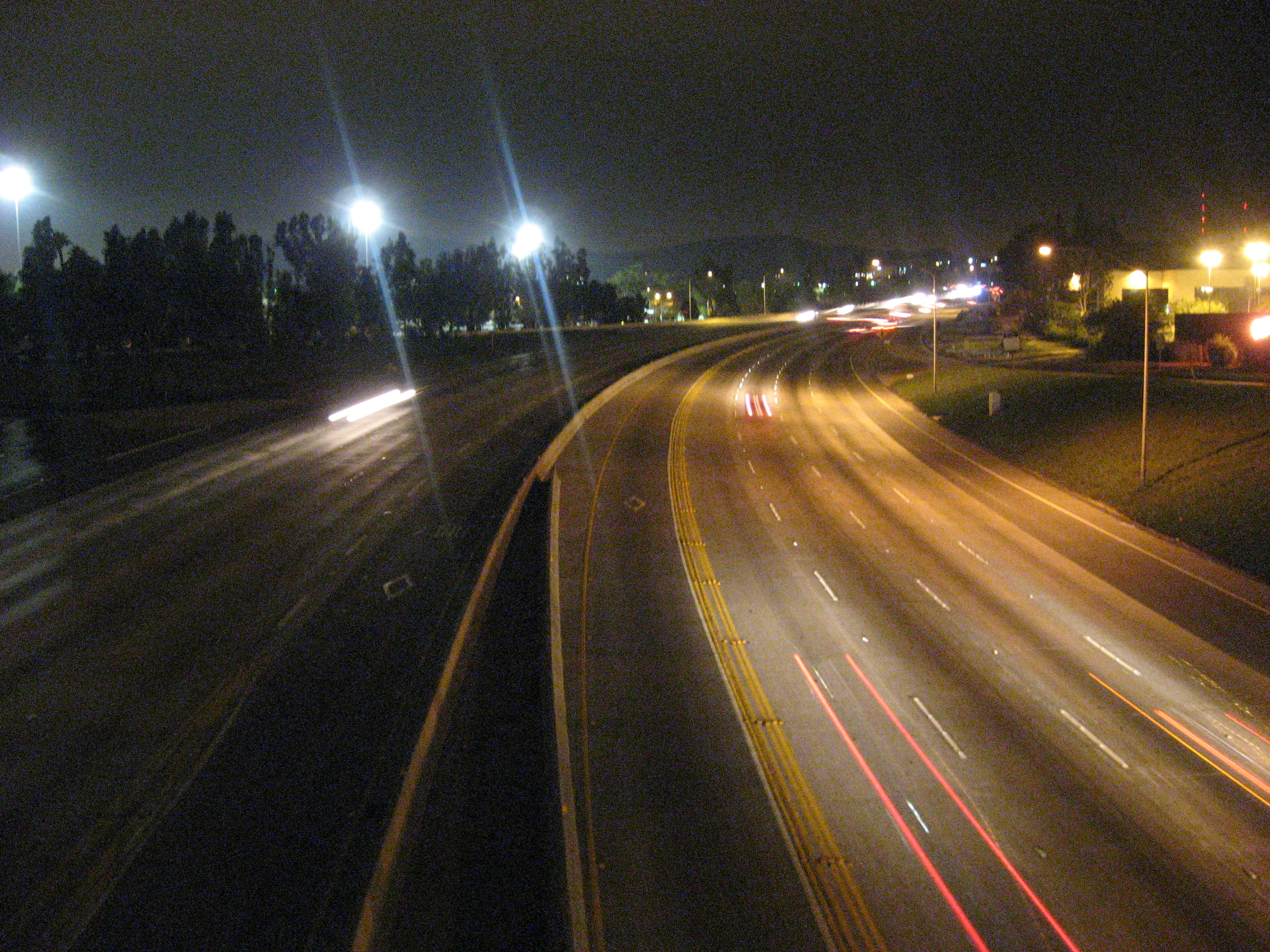 The 57 Orange Freeway facing north on Imperial Highway at night. Note: the streaks are used to illustrate the diffraction spike article. Please don't clean up without providing an alternative. Thanks!